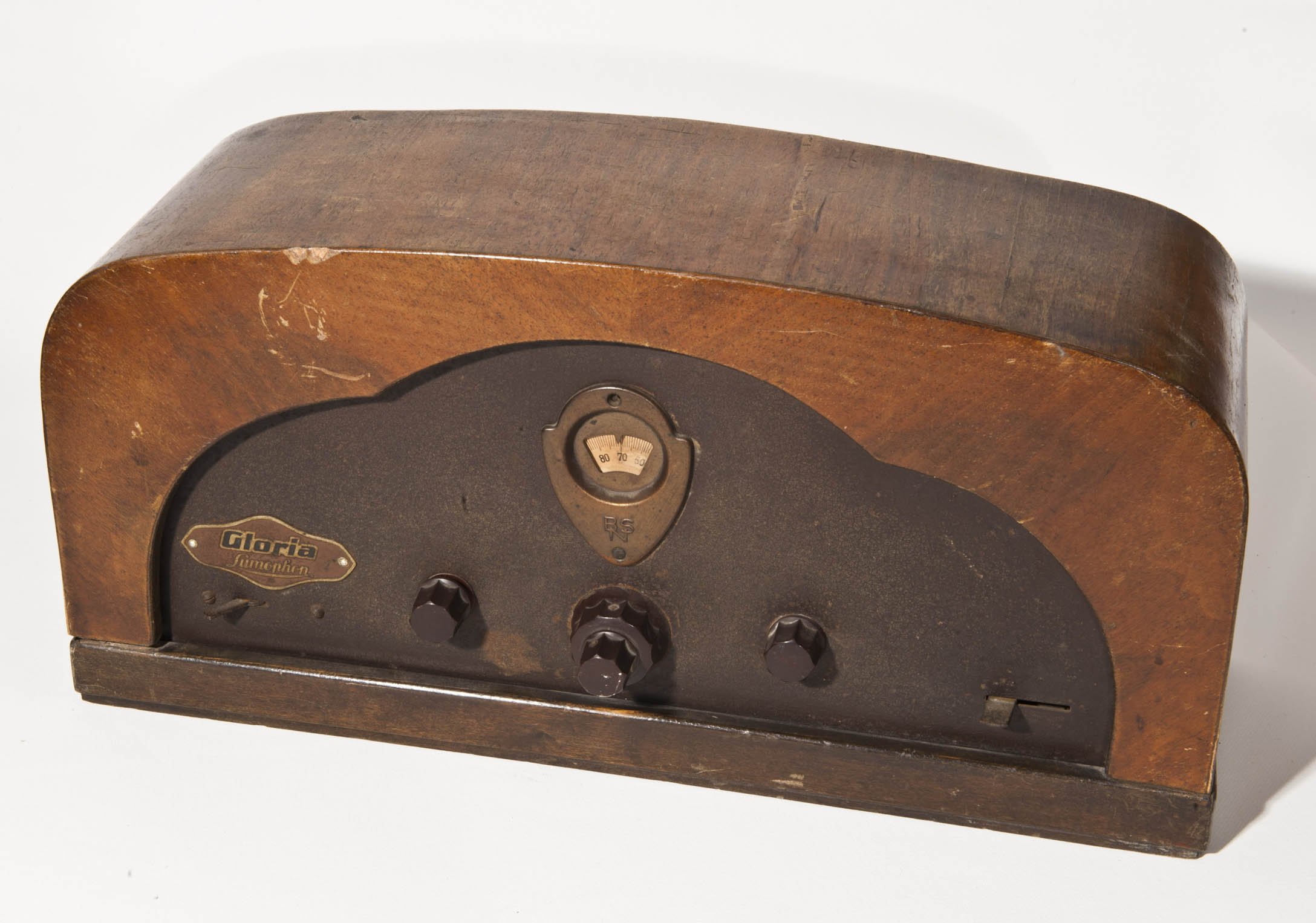 Radio Gloria Lumophon from around 1930, outside